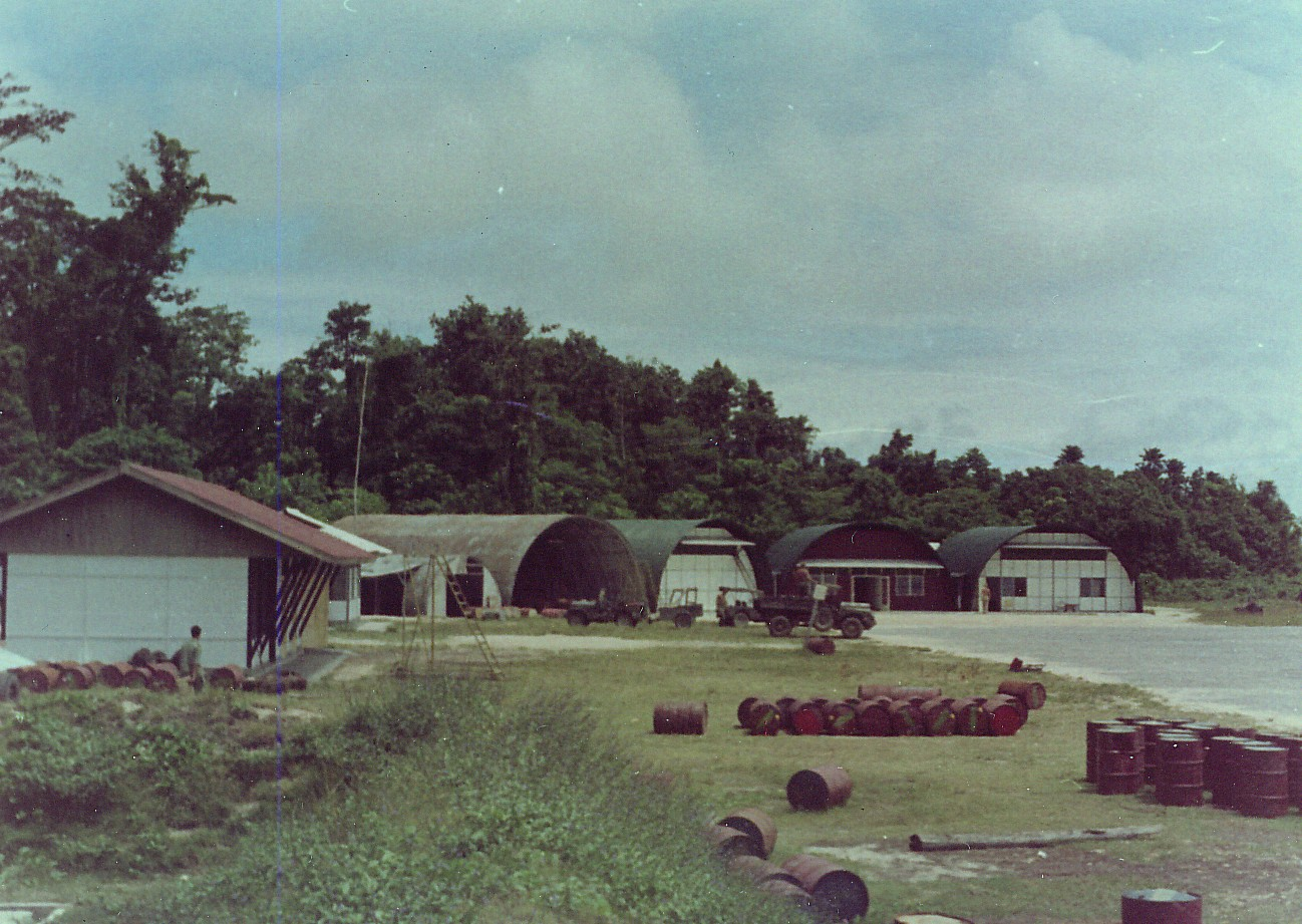 Netherlands New Guinea (Dutch New Guinea): Kaimana strip with "air traffic control tower", the "Kroonduif" office, a generator-shed and several other premises